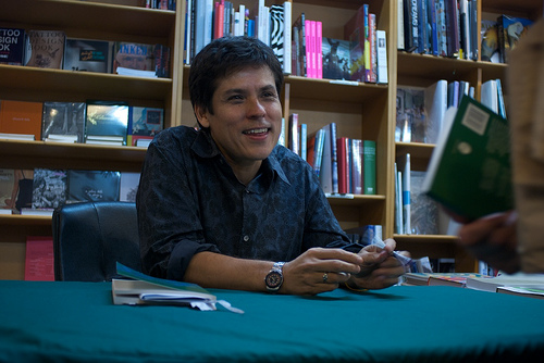 Adam Aitken signing copies of his book Eighth Habitation at Gleebooks, 2009.